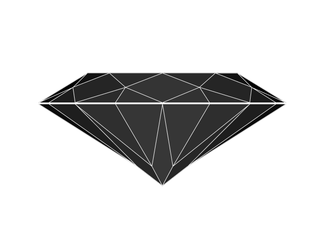 Brillant - side view, WIP